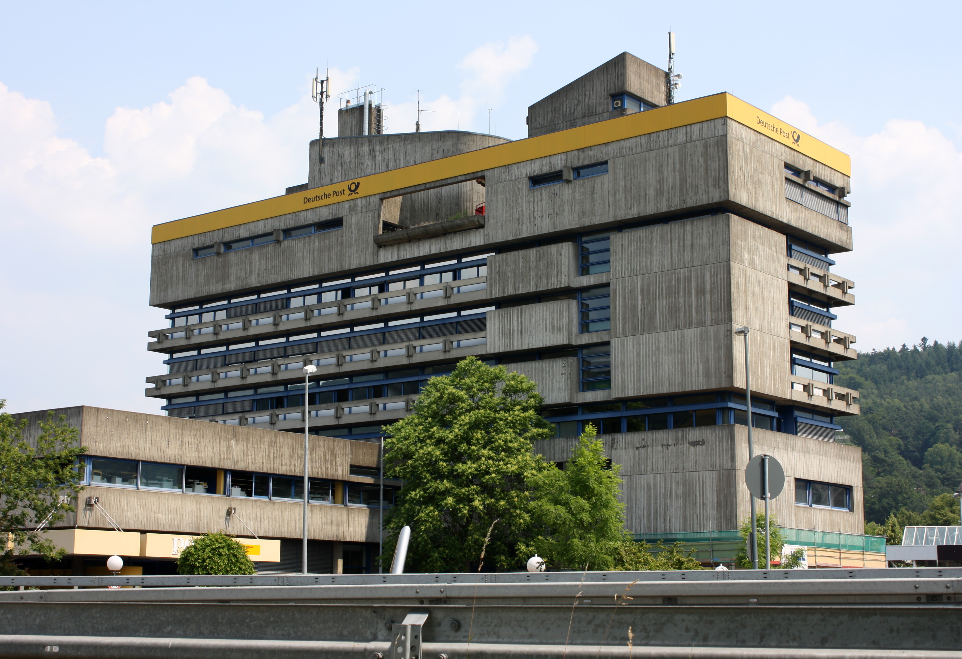 The main post office in Marburg